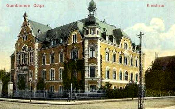 Gusev (Gumbinnen) ~1900 Gumbinnen/Ostpr., Kreishaus about 1900